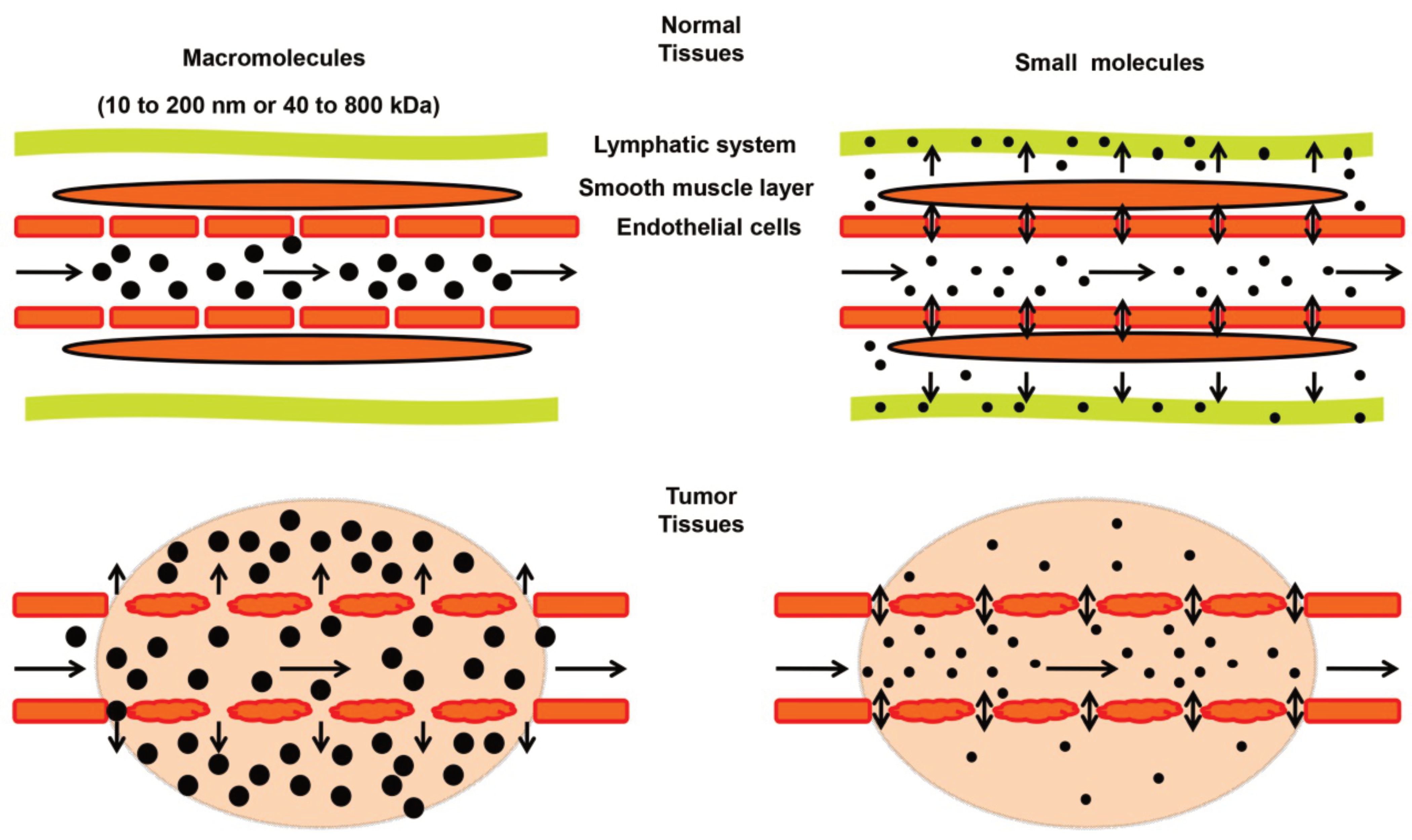 In tumor tissues (lower panels), endothelial cells are poorly aligned with wide fenestrations, and there is a lack of lymphatic clearance and a smooth muscle layer compared to normal tissues (top panels). Therefore, macromolecules (10 to 200 nm or 40 to 800 kDa) tend to accumulate in tumor tissues much more than in normal tissues. In contrast, small molecules diffuse freely in and out of blood vessels in both normal and tumor tissues due to their small sizes, leading to their low concentrations over time.[1]